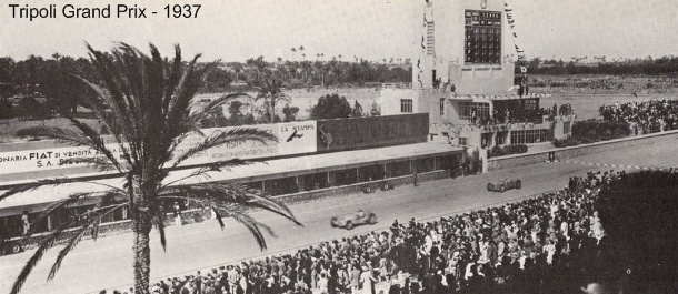 Image taken from an old uncle album, who had lived in Italian Libya. I have done a digital photo of the image and added data with my software. The image is from photos about Libya in the 1930s, that appear even on Flickr but are not copyrighted and are more than 70 year sold.